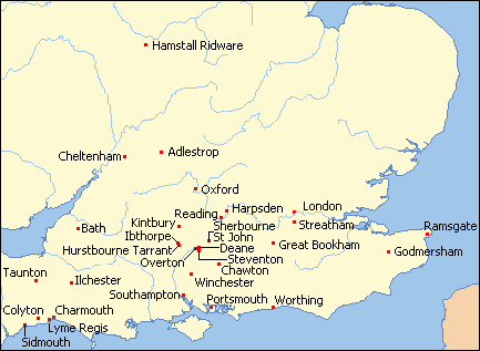 Map of Britain from Online Map Creation, colored and cropped by Ruhrfisch, red dots are the thirty places where Jane Austen lived or visited, added by Ruhrfisch